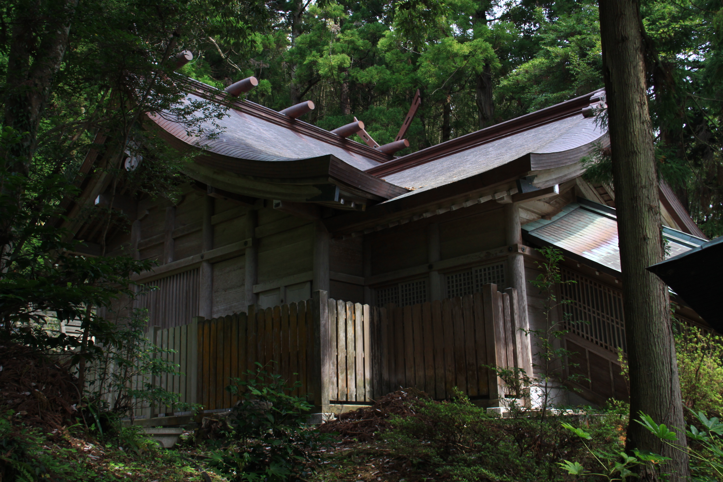 Watatsu jinja Honden